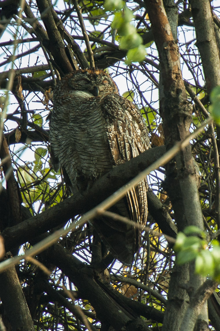 Mottled Wood-Owl (Strix ocellata)